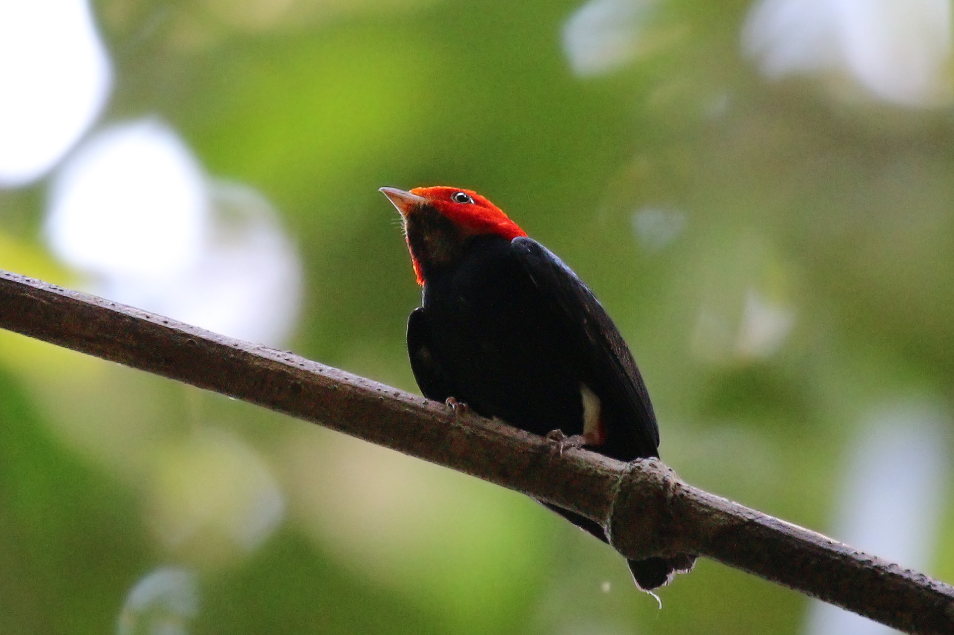 Red-headed manakin (Pipra rubrocapilla) male